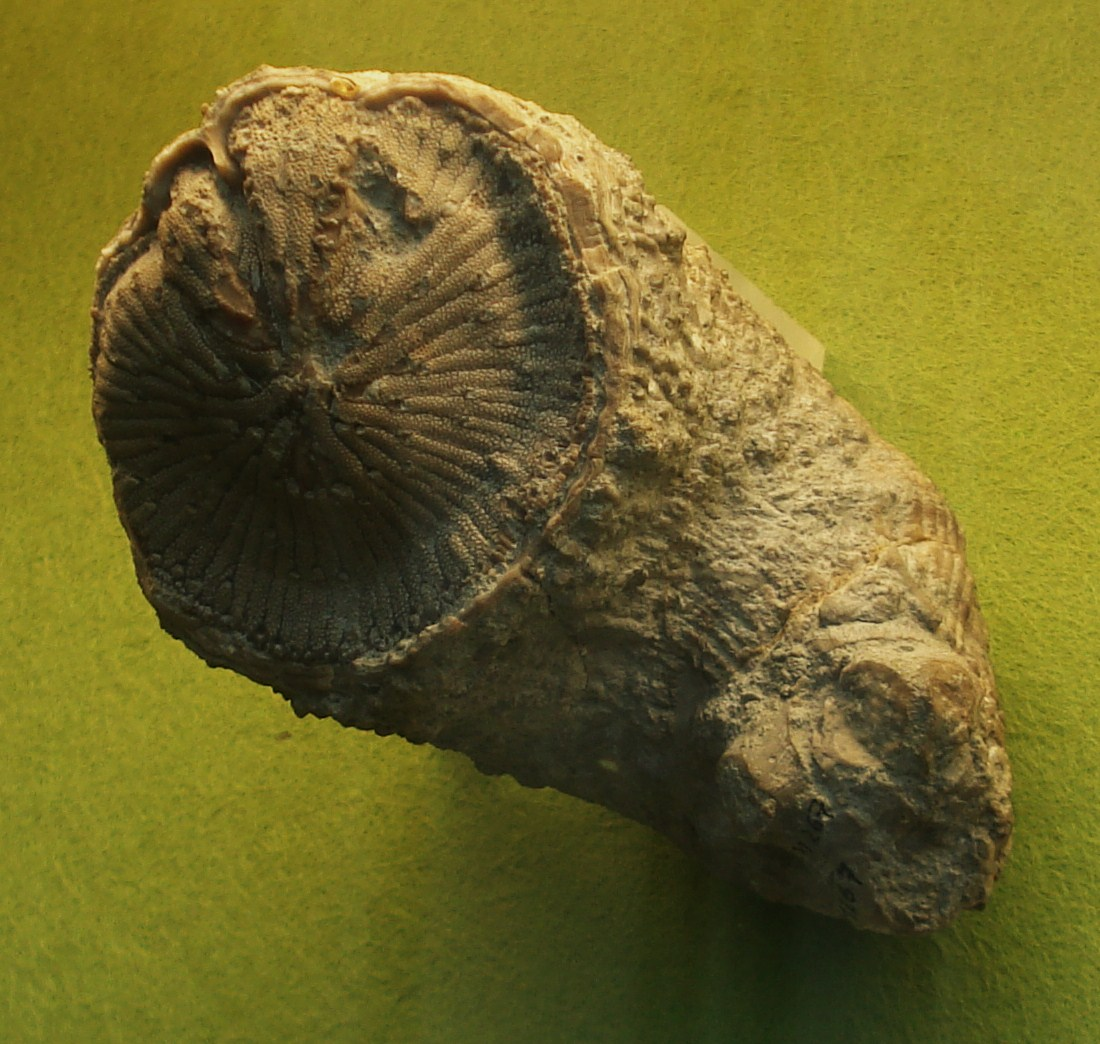 fossil of hippurites